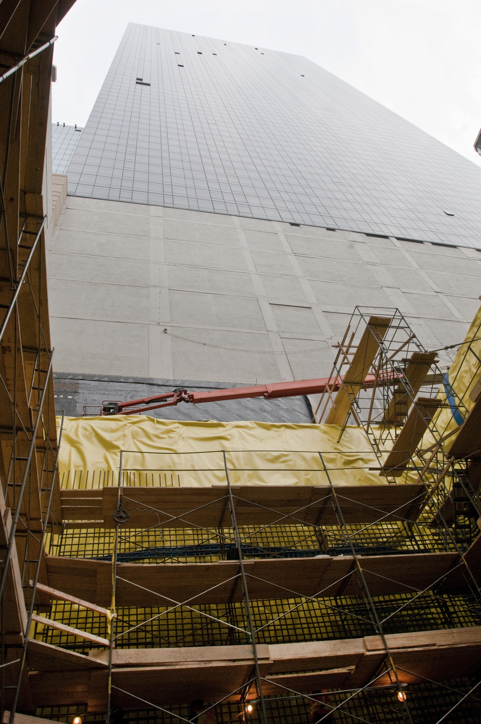 The MTA is extending the 7 subway line to a new station at 34th Street and Eleventh Avenue on the West Side of Manhattan. This photo shows the progress of the work as of January 26, 2012. Photo by Metropolitan Transportation Authority / Patrick Cashin.